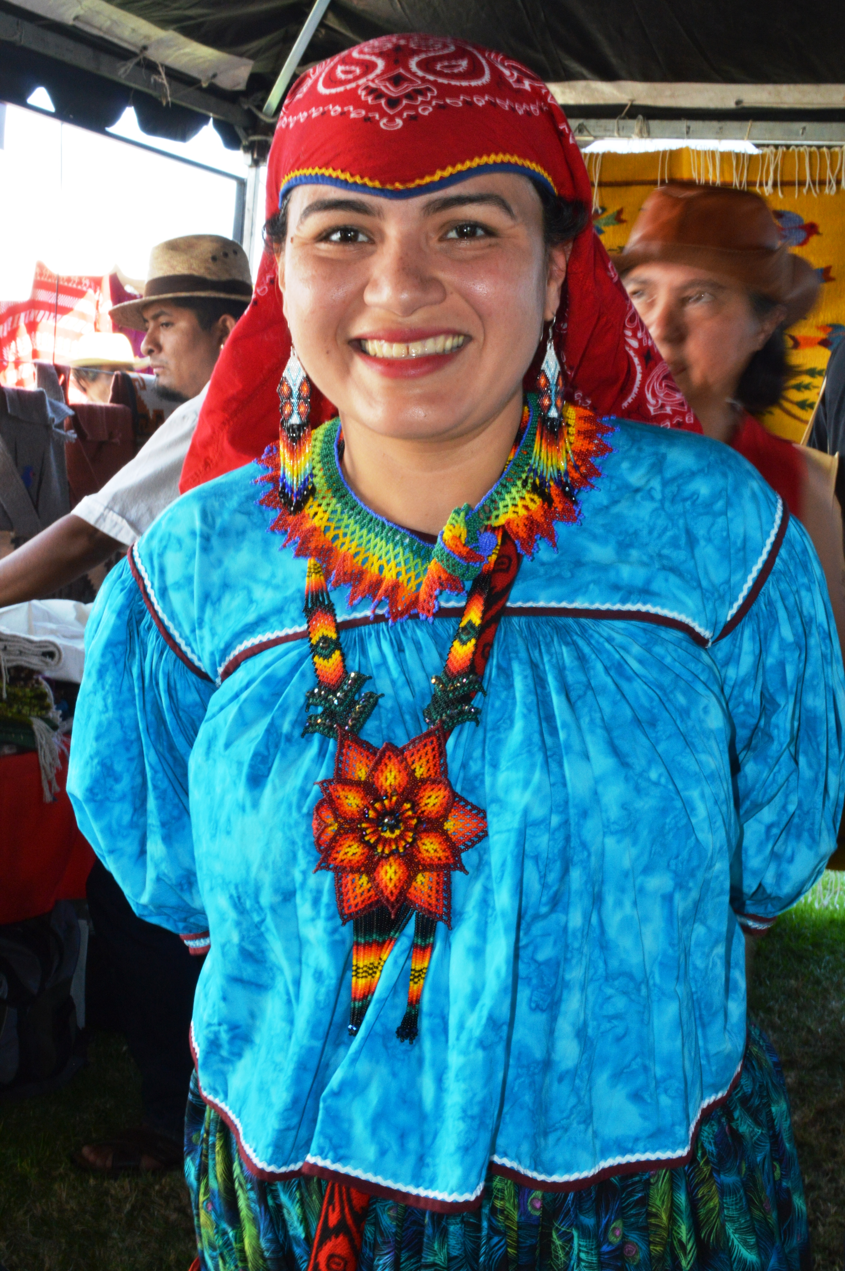 Rosi Valadez of the Huichol Center for Cultural Survival and Traditional Arts at the 2015 Feria de los Maestros del Arte in Chapala, Jalisco